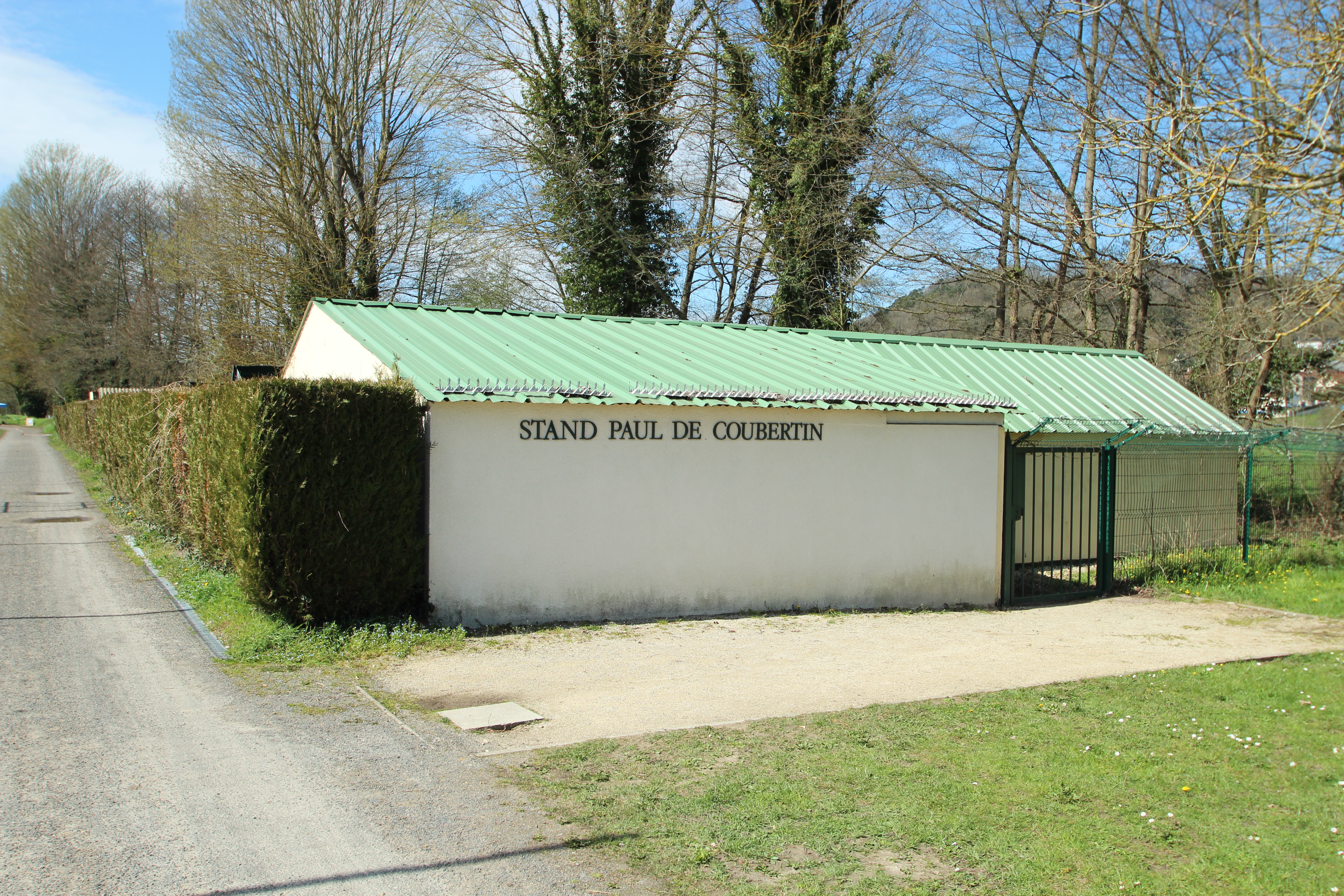 Paul de Coubertin shooting stand in Saint Rémy lès Chevreuse, France.